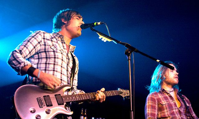 Charlie Simpson and Dan Haigh of Fightstar perform live. Photo cropped from original.